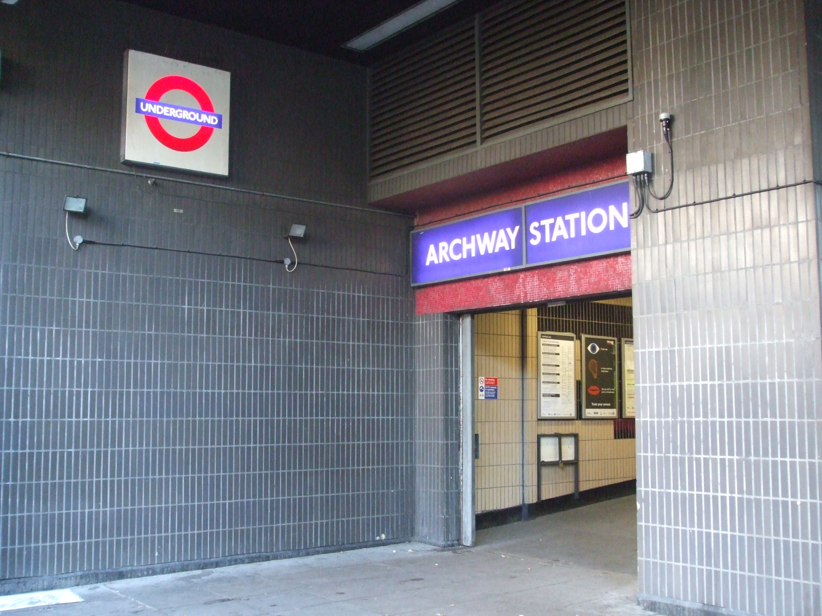 Archway tube station side entrance